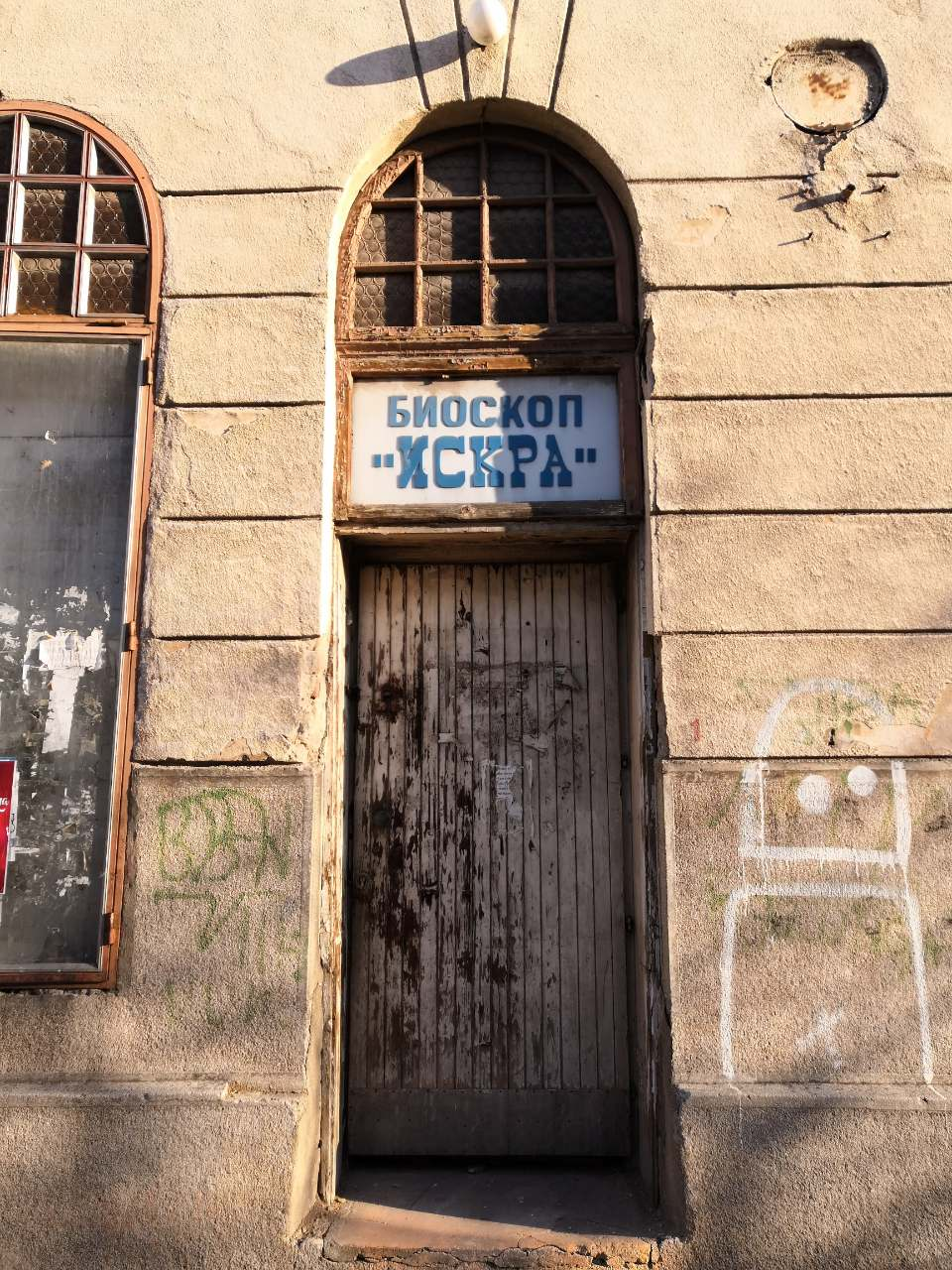 Entrance in movie theatre Iskra in Pirot